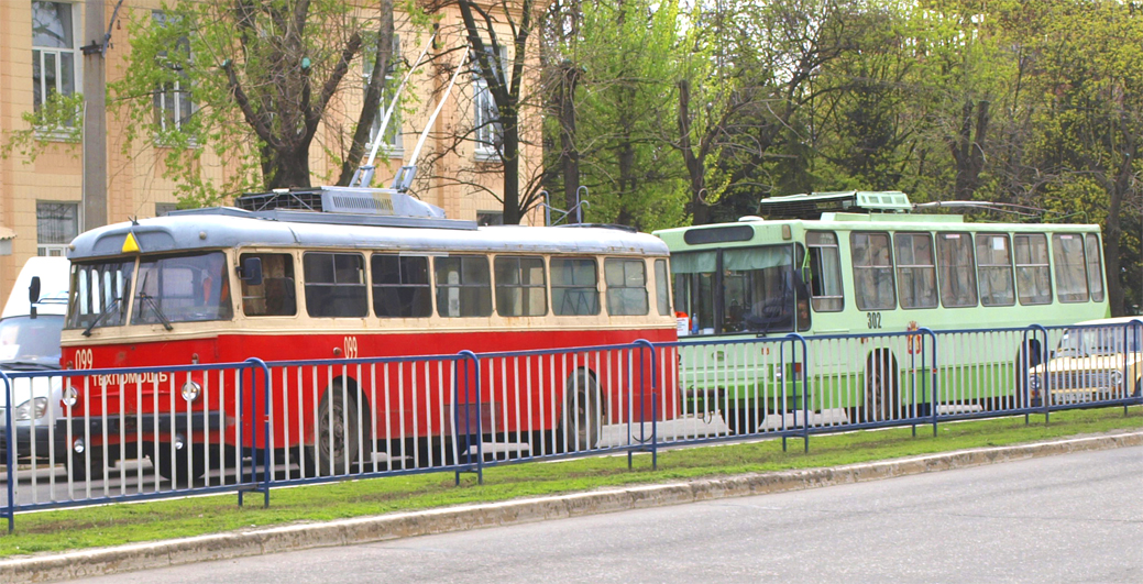 Škoda 9Tr is still used in Luhansk (Ukraine), 2012